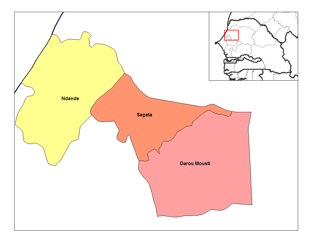 Map of the arrondissements of Kebemer department in Senegal.